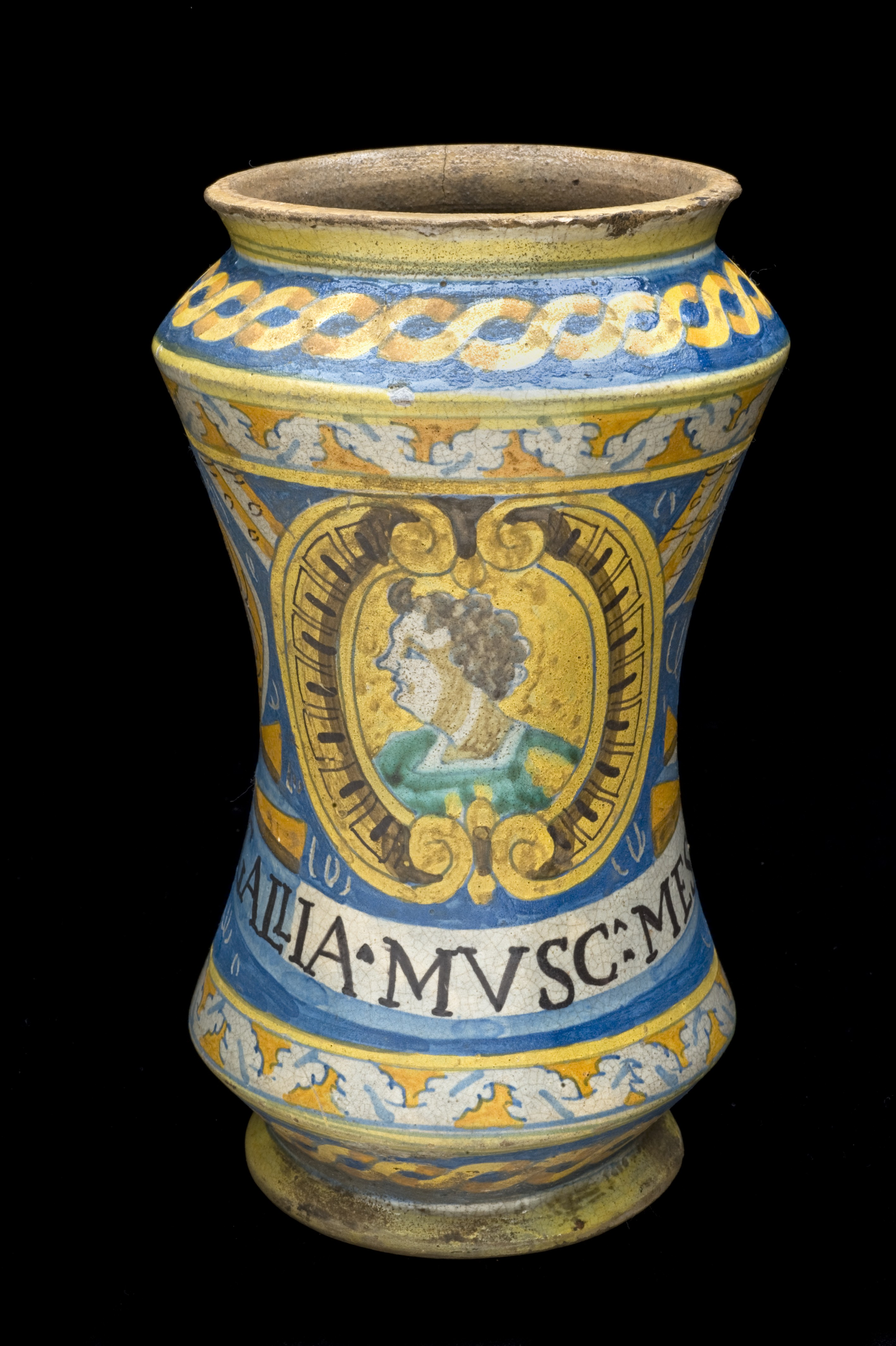 The inscription on this jar translates from Latin as “Mesue’s French Musked Lozenges of Aloes Wood”. The preparation was made from aloe wood and two animal products, ambergris and musk, which are both difficult to find in large quantities. Pressed into lozenges, they were used to strengthen the brain and heart. All of the ingredients are very fragrant and so they also acted as a deodorant and breath freshener. The French part of the name derives from the preparation’s popularity in France. Mesue (777-857 CE) was the European name for Yuhanna Ibn Masawayh, a prominent Christian physician who wrote in Arabic. Ibn Masawayh worked at the Baghdad hospital and was personal physician to a number of Caliphs. ‘Meuse’ was also the pseudonym of a pharmaceutical writer. maker: Unknown maker Place made: Sicily, Italy Wellcome Images Keywords: musk; drug jar; Ambergris; Pharmacy; lozenge